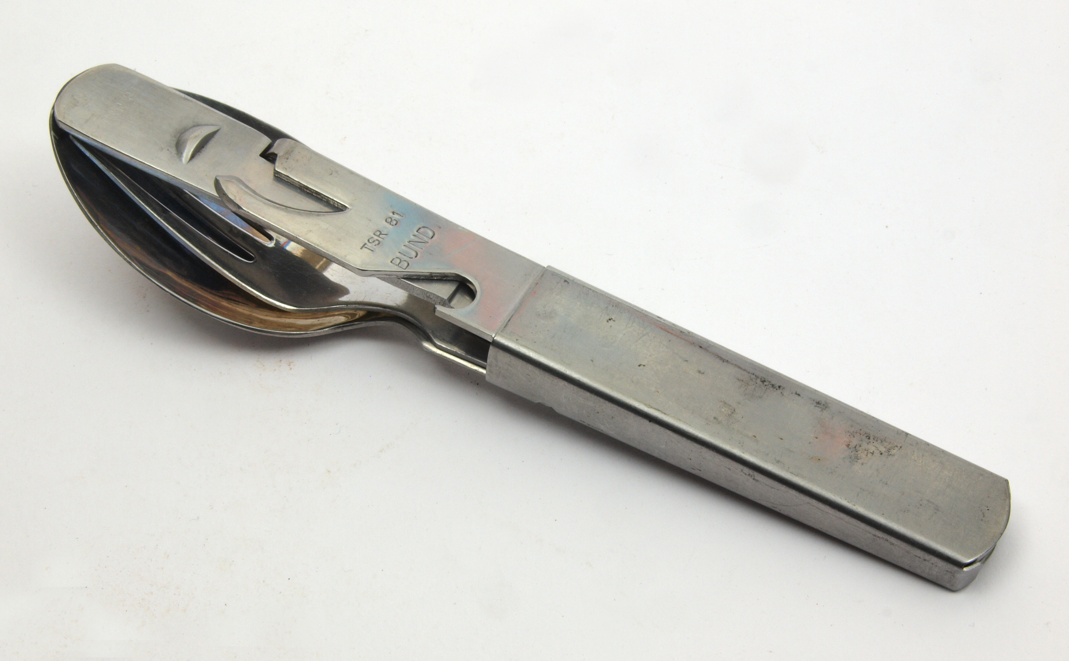 Field cutlery. German Army/Deutsche Bundeswehr. TS 81. Stainless steel, from the 1980s. Top view. Length: 190 mm (7.48 in). Height: 24 mm (0.94 in). Width: 41 mm (1.61 in). Weight: 0.1888 kg (0.42 lb)